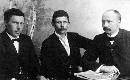 From left: Símun av Skarði (1872–1942), Rasmus Rasmussen (1871–1962) and Símun Pauli úr Konoy (1876–1956)